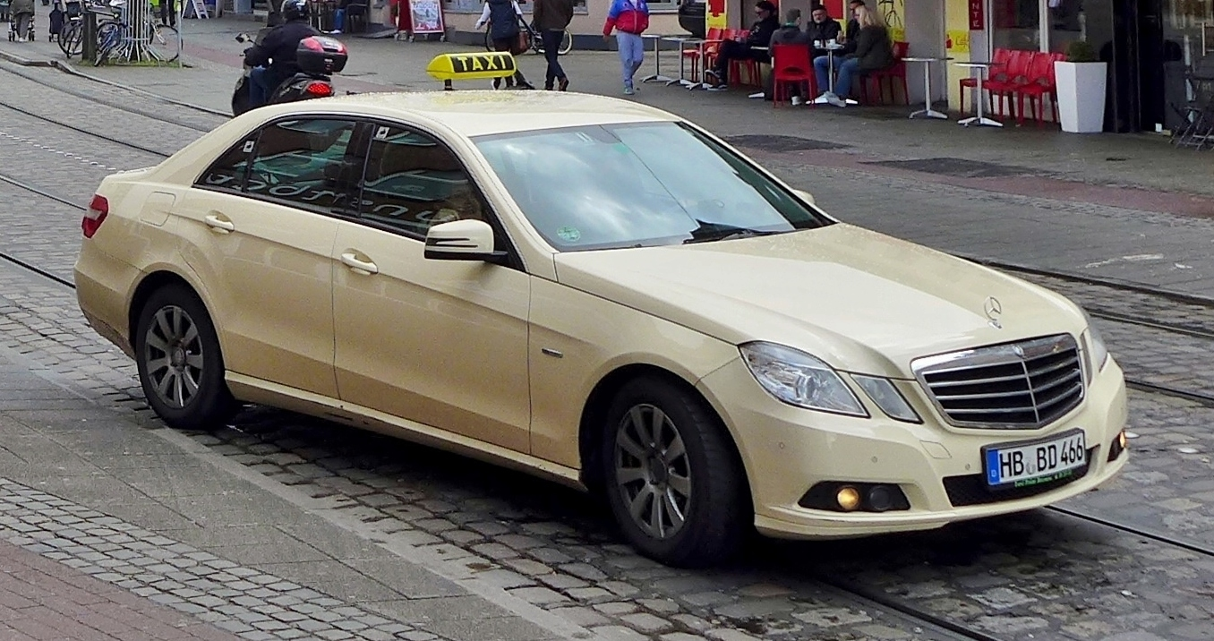 View of Vor dem Steintor, Bremen, Germany